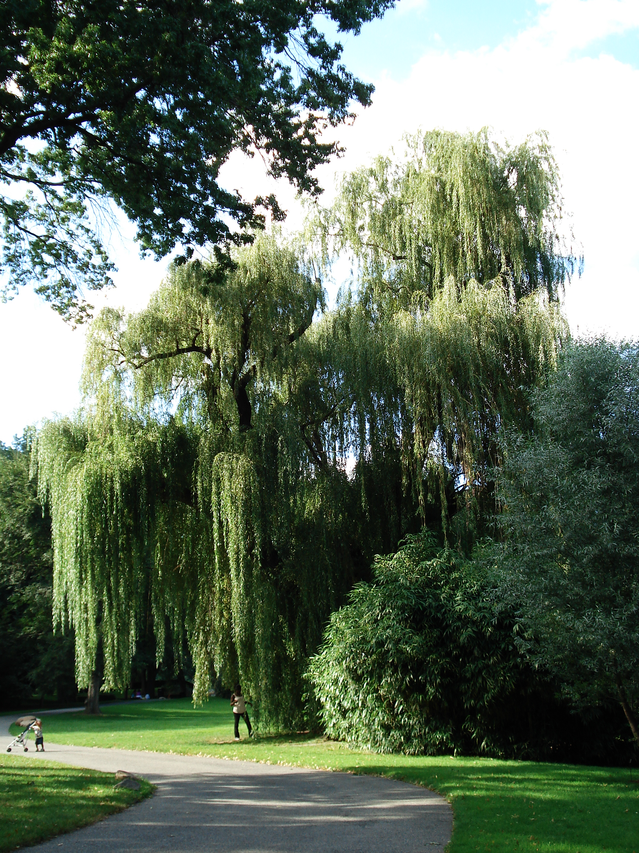 Salix × sepulcralis (Chrysocoma) Weeping Willow tree at the Brooklyn Botanic Garden in New York City. Copyright 2007 Jeffrey O. Gustafson, released to Commons under the GFDL and the CC-BY-SA-3.0.